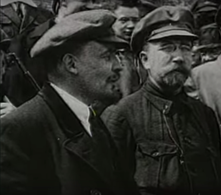 Vladimir Lenin and Lev Kamenev.